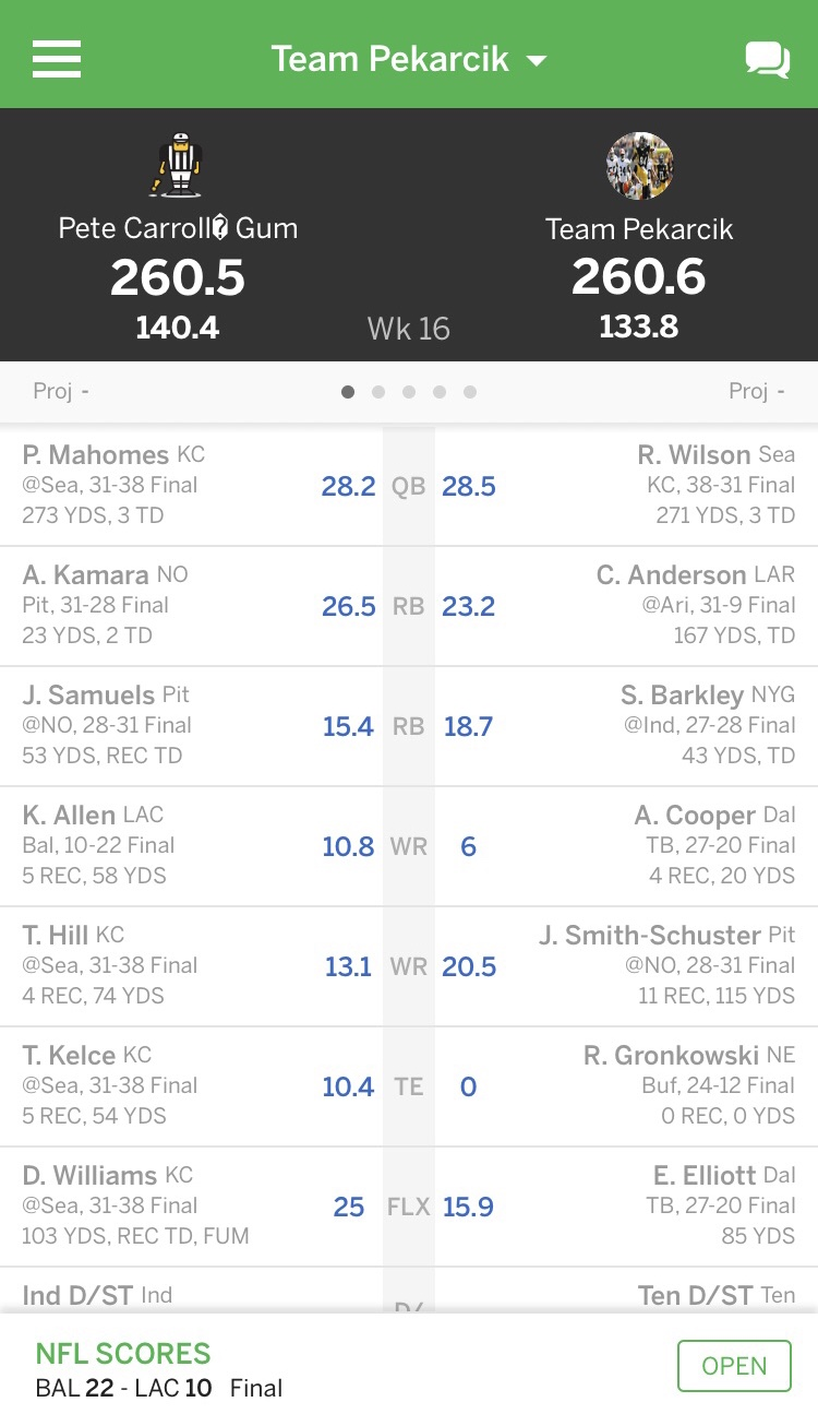 Espn Fantasy Football Championship. Team Pekarcik def. Pete Carroll’s Gum 260.5-260.6.